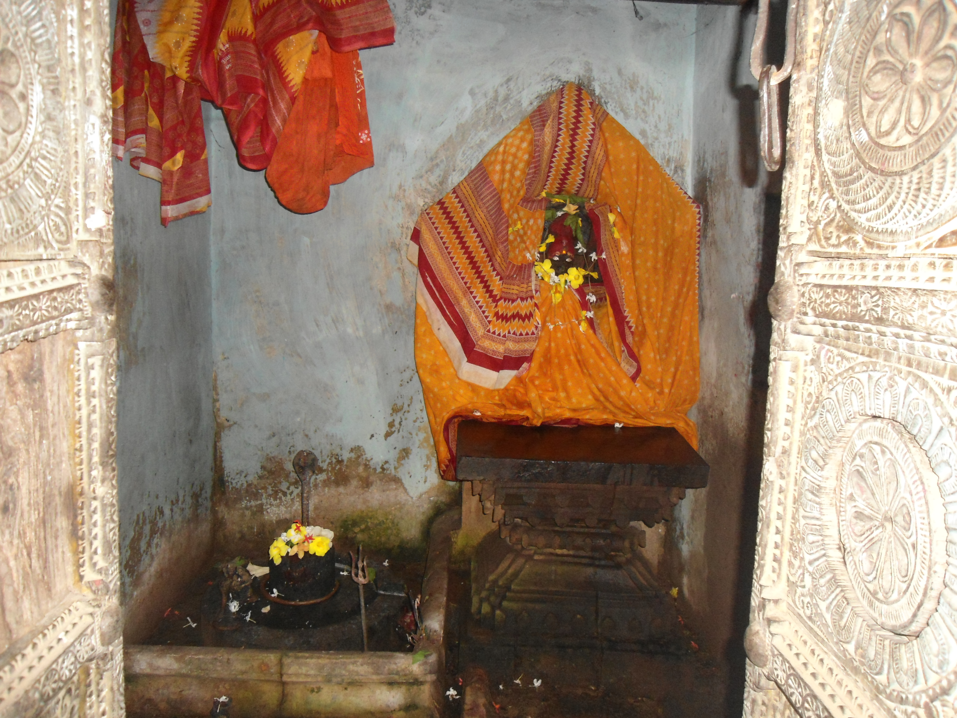 Lord Shiva and Goddess Parvati, Varahanatha Temple,Jajpur